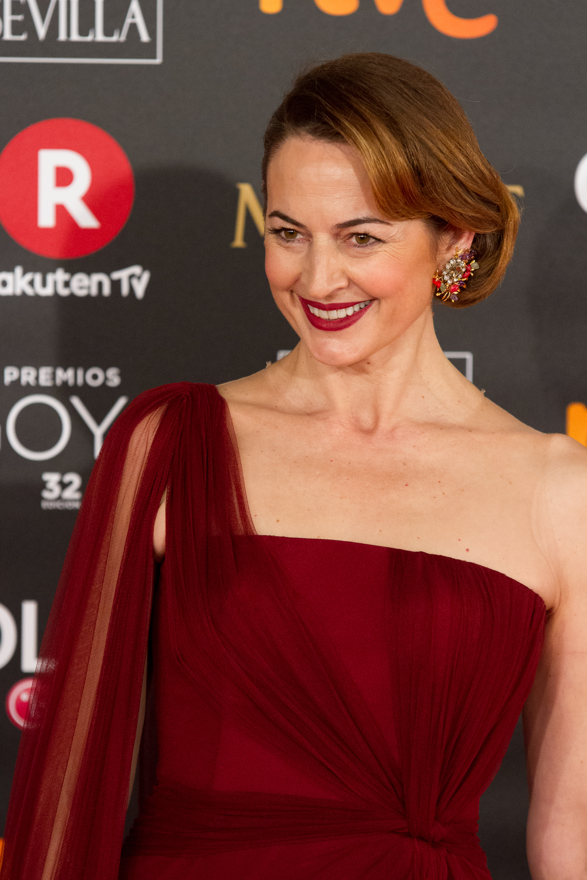 32nd Goya Awards, 2018.